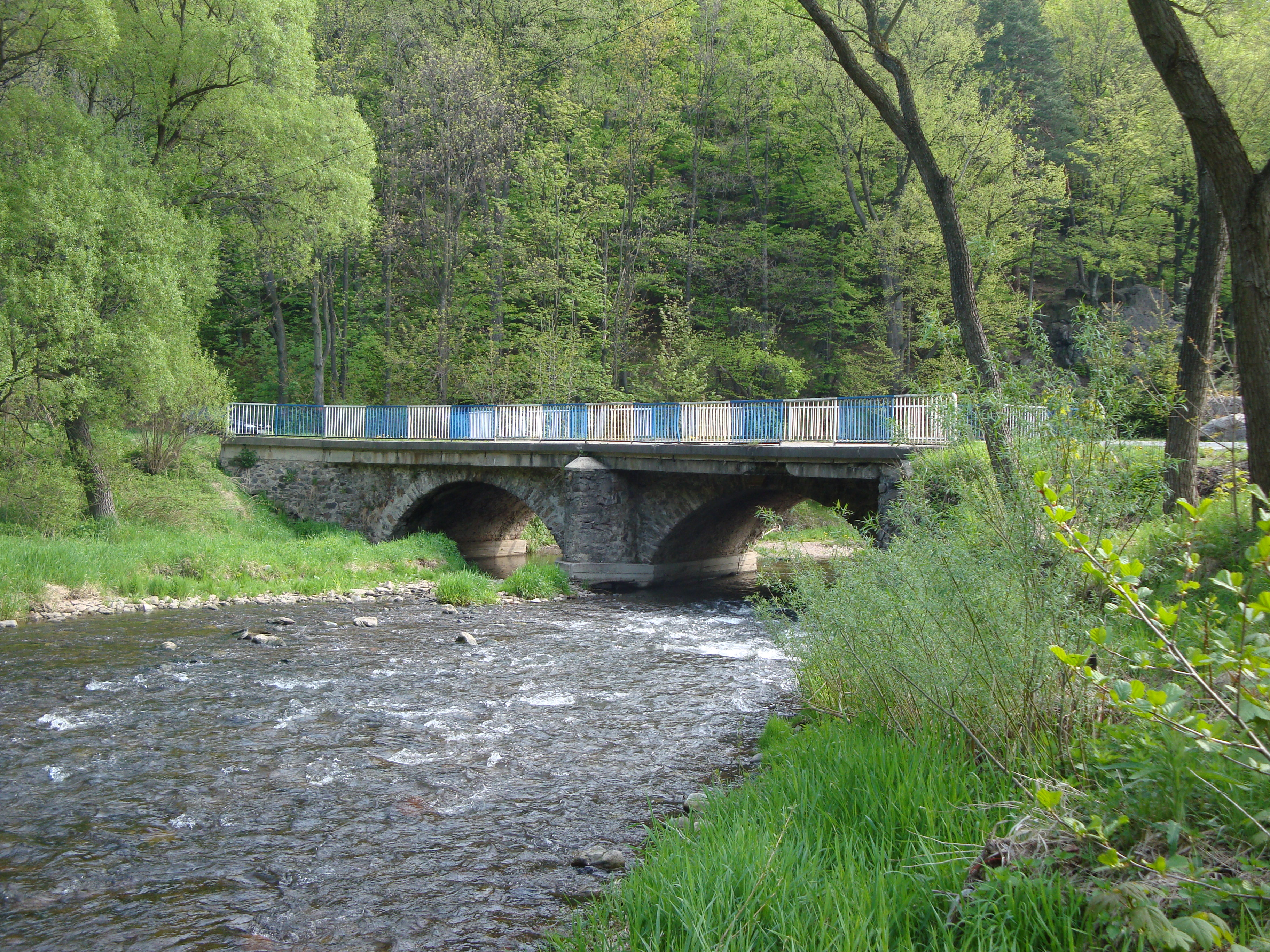 Stone Bridge Zagorze Slaskie